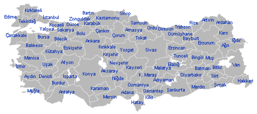 Provinces of Turkey